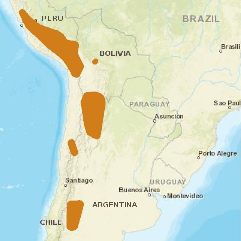 Distribution of Andean cat